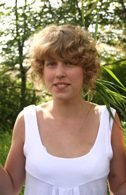 Silje Halstensen